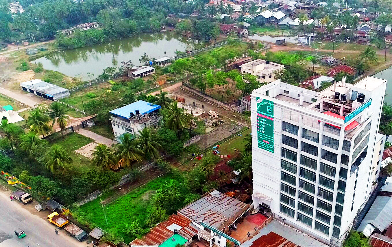 MIST Campus New